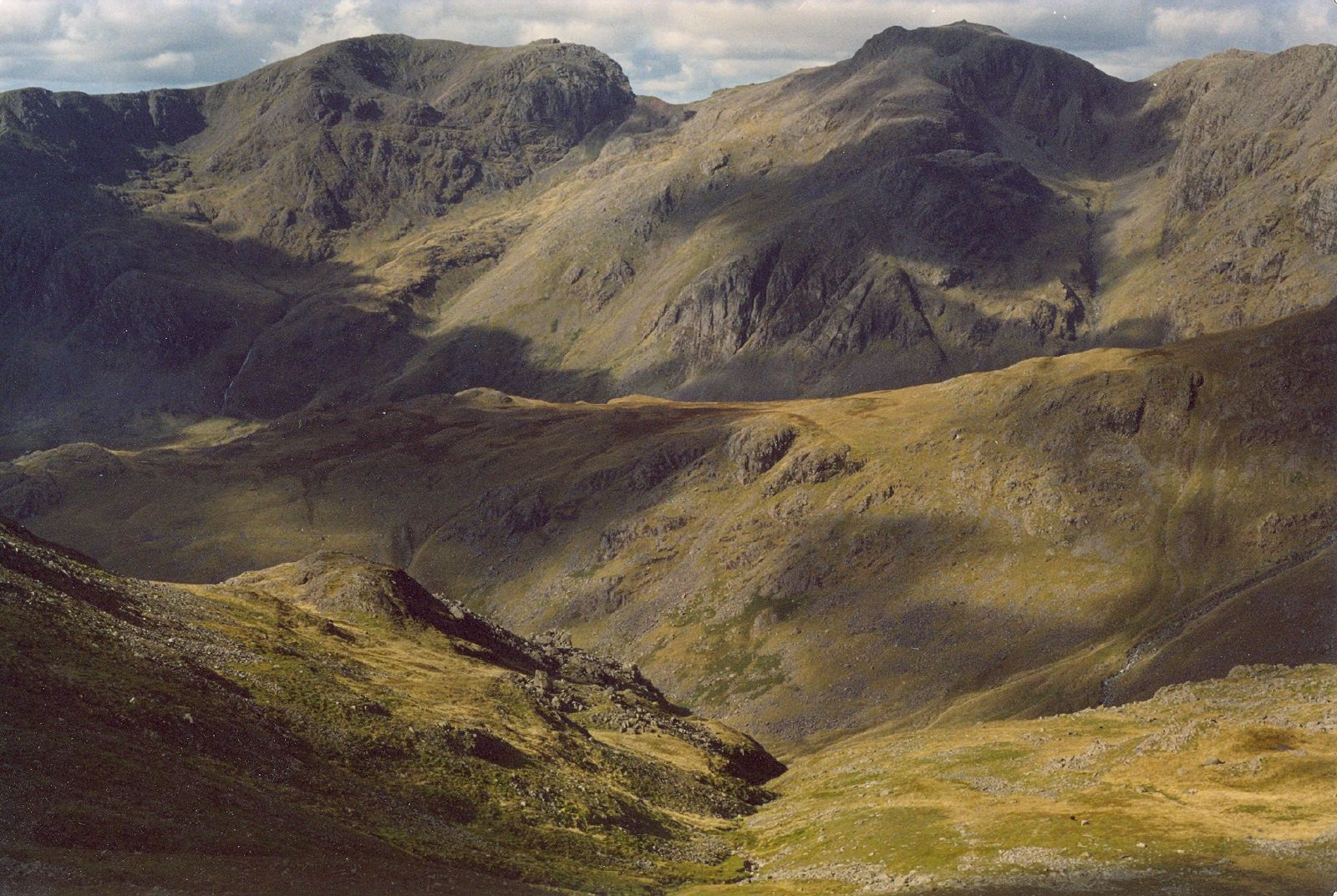 Scafell and Scafell Pike from the Crinkle Crags